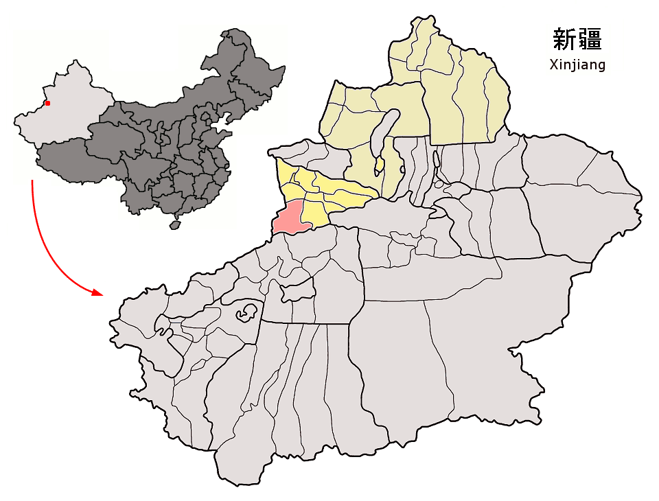 Location of Zhaosu County (pink) and Ili Prefecture (yellow: subdivisions under direct administration of Ili Prefecture, ecru: subdivisions under administration of Tacheng and Altay Prefectures) within Xinjiang autonomous region of China Map drawn in september 2007 using various sources, mainly : Xinjiang Uygur autonomous region administrative regions GIS data: 1:1M, County level, 1990 Xinjiang Counties map from